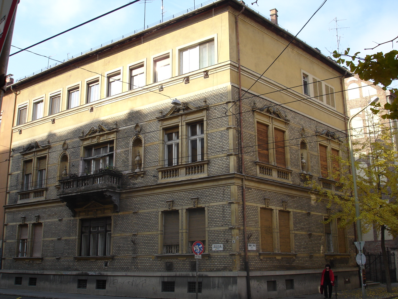 Sebestyén Endre architect